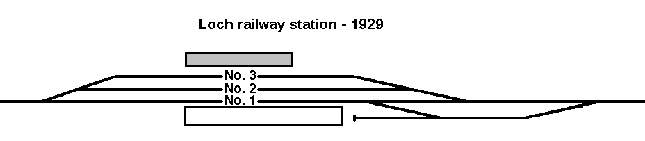 Korumburra railway station, Victoria layout